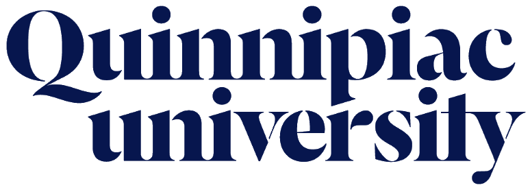 Logo for the Quinnipiac University.